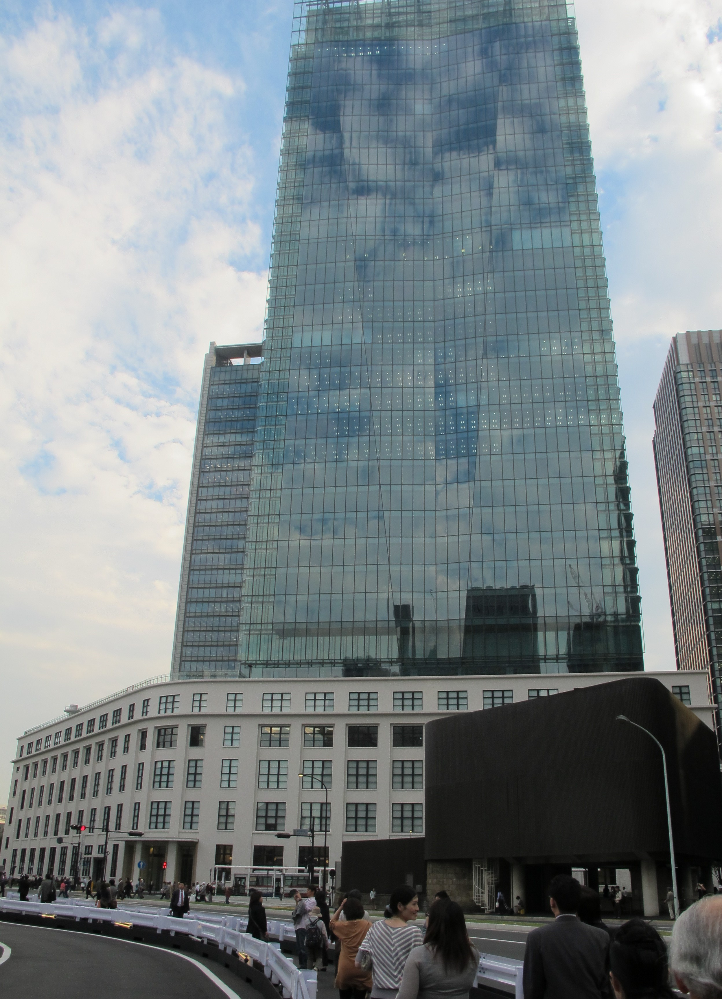 Central Post Office, Tokyo